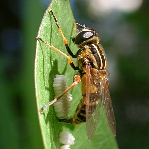 Helophilus pendulus, Eiablage, Frankfurt am Main, Germany